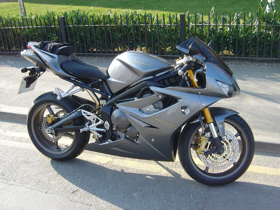 Author/Owner of the picture is Nathan Lee. Pictured is a 2006 Triumph Daytona 675 (Graphite coloured). Has the seat attachment for the triumph panniers attached to the pillion seat. Happy for any and all use of the image and release it into the public domain.